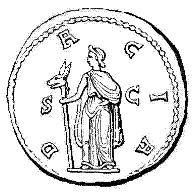 738 woodcuts illustrating the work A Dictionary of Roman Coins, Republican and Imperial (1889). To identify a coin please look at the filename to identify a page number, and check the Dictionary on numiswiki